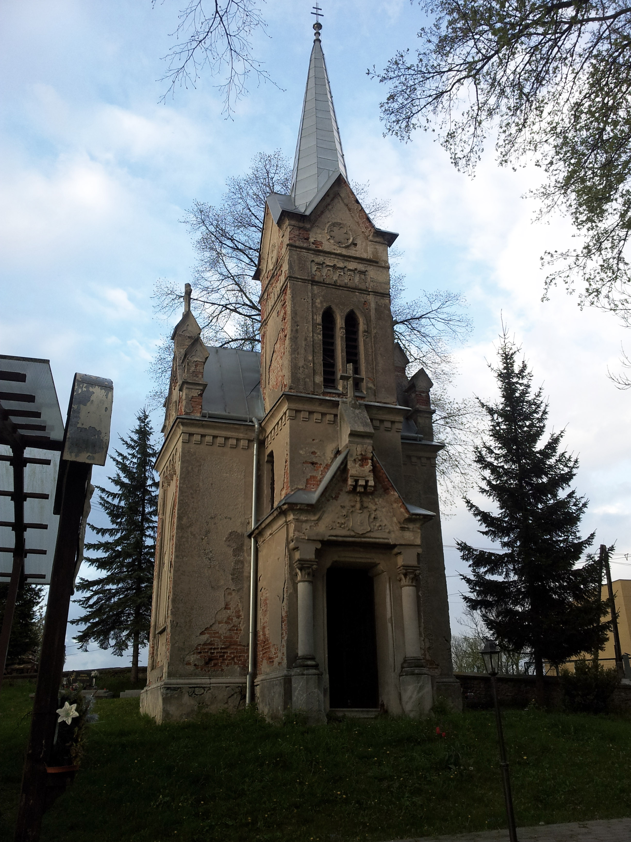 Neogothic Mausoleum of Rakovský family in Rakovo, Slovakia